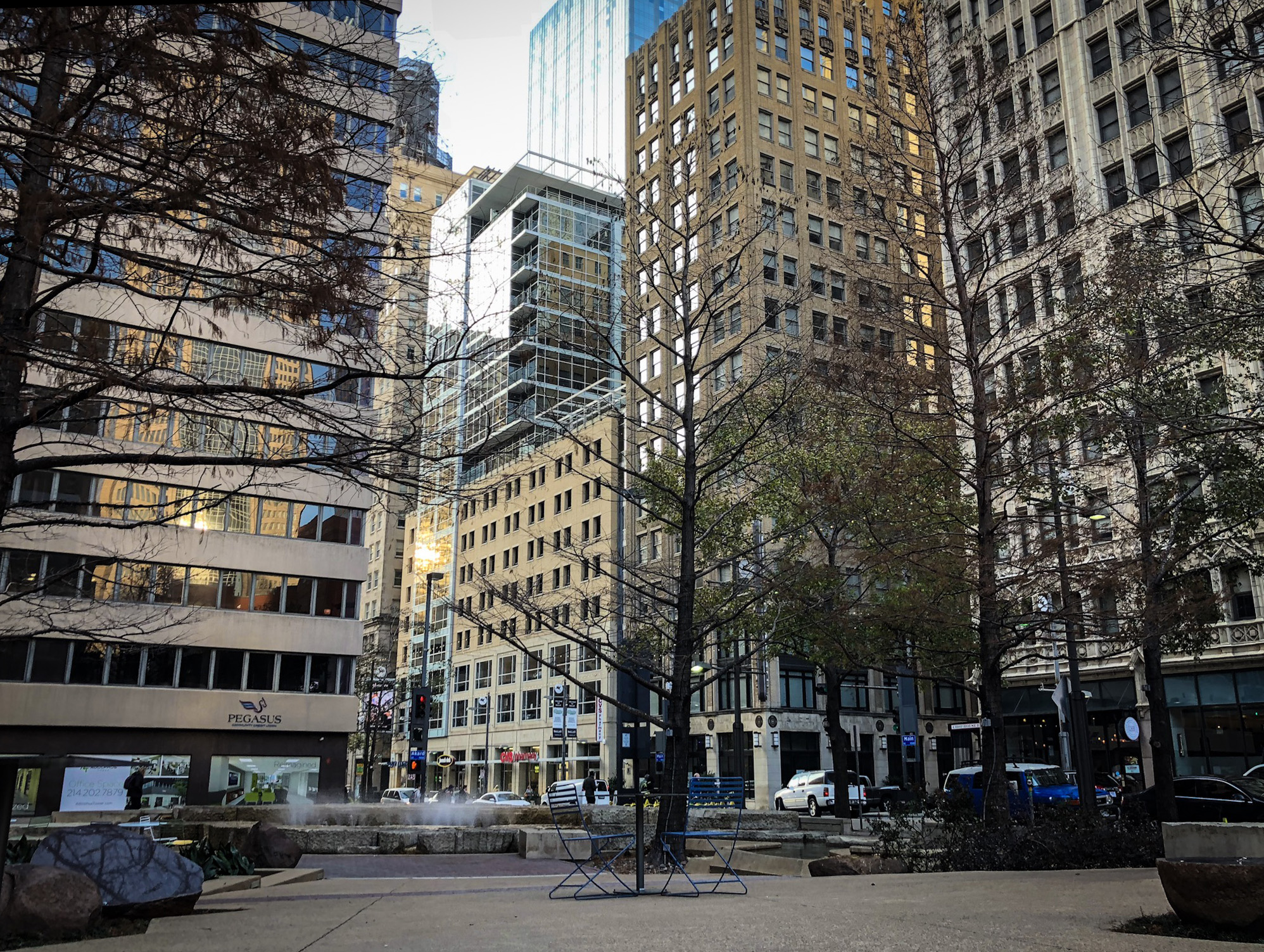 View from Pegasus Plaza looking northwest. Buildings (from left): Adolphus Tower, Third Rail Lofts, Gulf States Building, The Kirby.